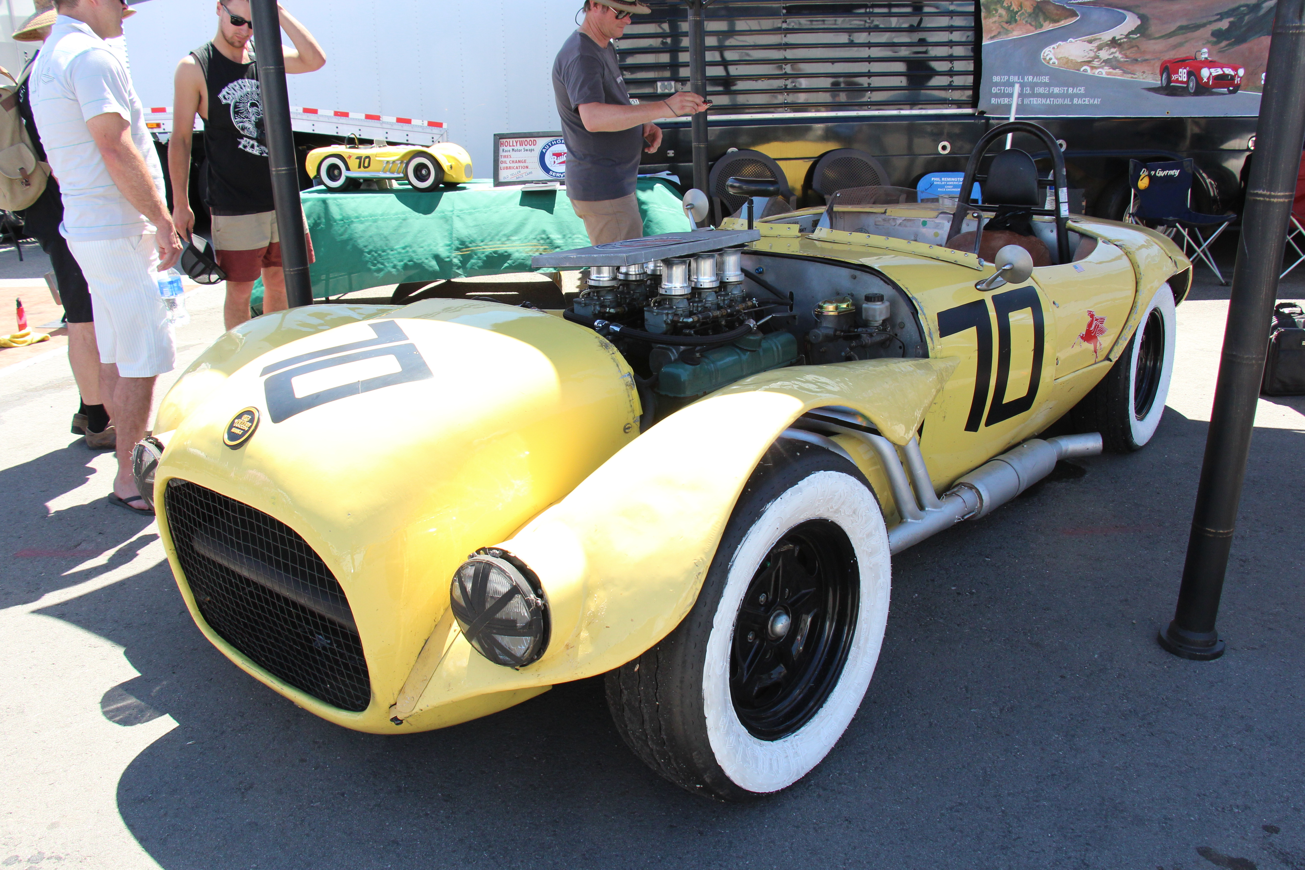 Max Balchowsky started racing in 1951 with a rather more sedate Jaguar XK120, before switching to homebrew cars for the next couple of years. In 1959, he built Old Yeller Mk II, it had a ladder-type chassis with double-wishbone front suspension and a solid rear axle, and a body held together by rough army-surplus fasteners and some tape. But what was really important was under the bonnet: a heavily-modified 6571cc V8 Nailhead Buick 401 engine pushing out 305bhp. Balchowsky initially drove Old Yeller himself, but over the car’s life a list of impressive drivers has also shared the wheel, like Carroll Shelby and Dan Gurney. It was raced right up until 1974. It was restored in the early 90s back to how it looked in 1959. It has feature at Goodwood in England and the Monterey Historics at Laguna Seca.